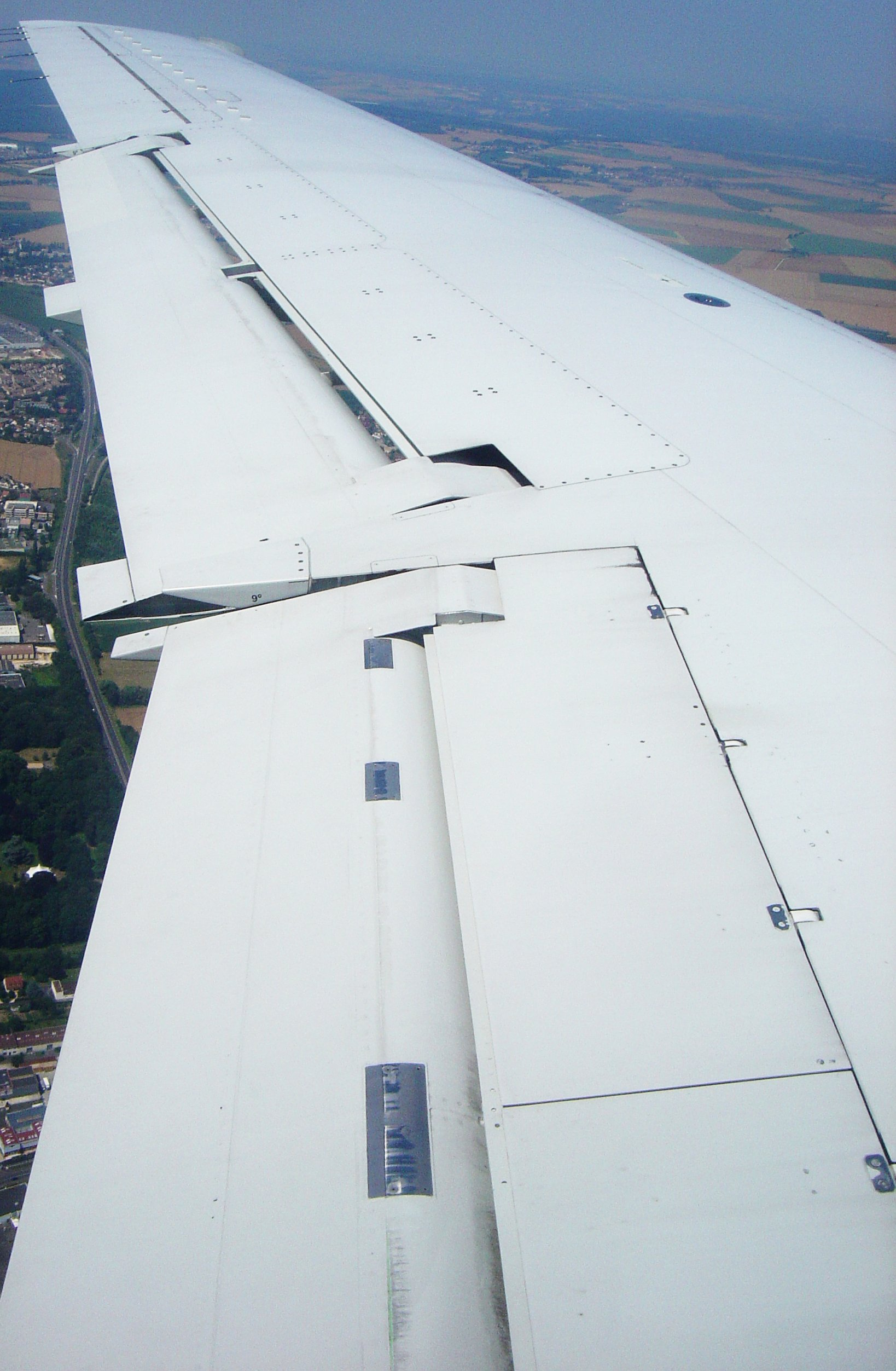 aircraft wing Embraer 145? flaps slightly on